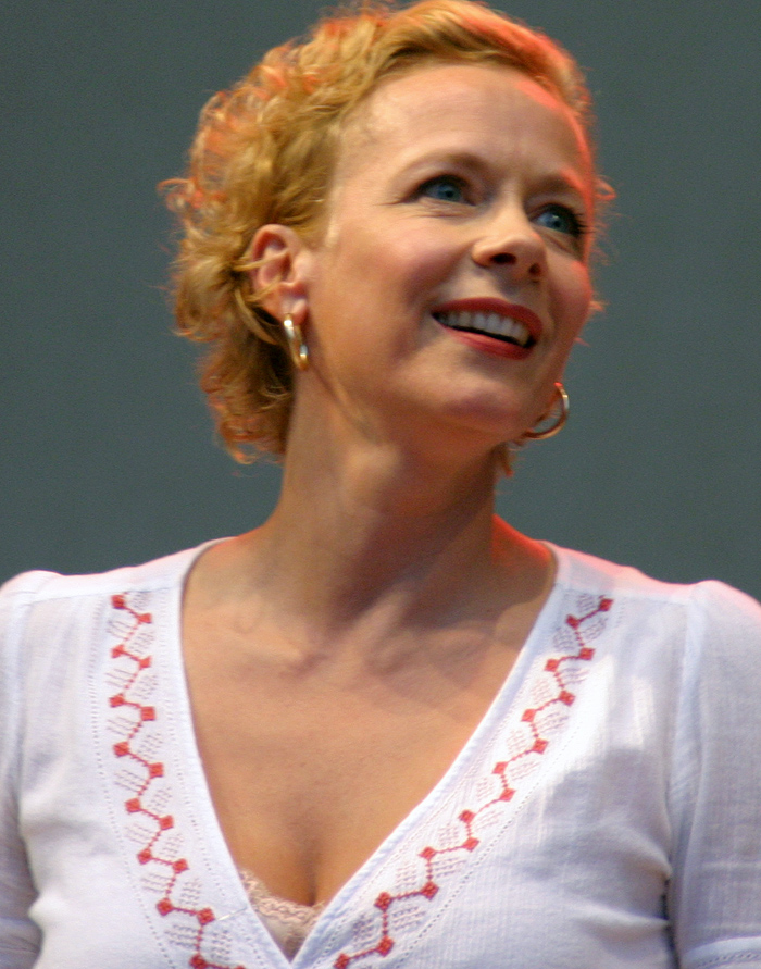 Katja Riemann, German actor and singer, 2007 in Cologne at the Deutschen Evangelischen Kirchentag 2007(German for German Protestant Church Day)